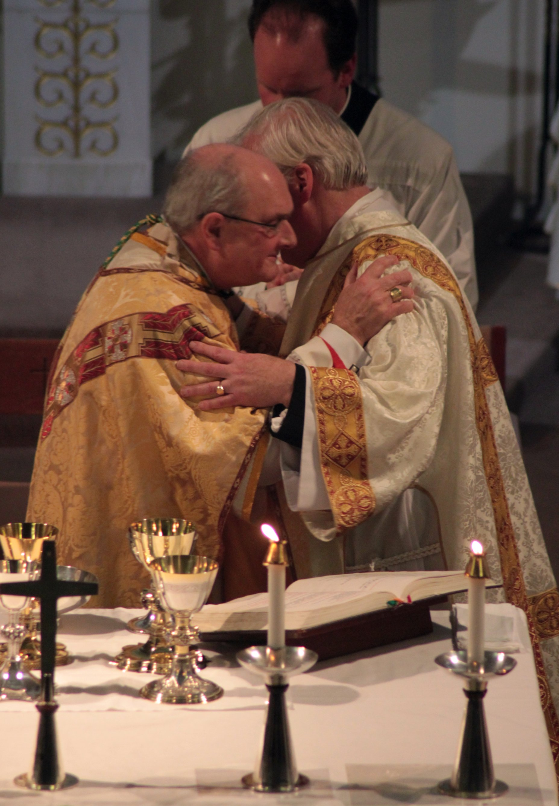 Bishop Alan Hopes shares the Kiss of Peace with Deacon John Broadhurst